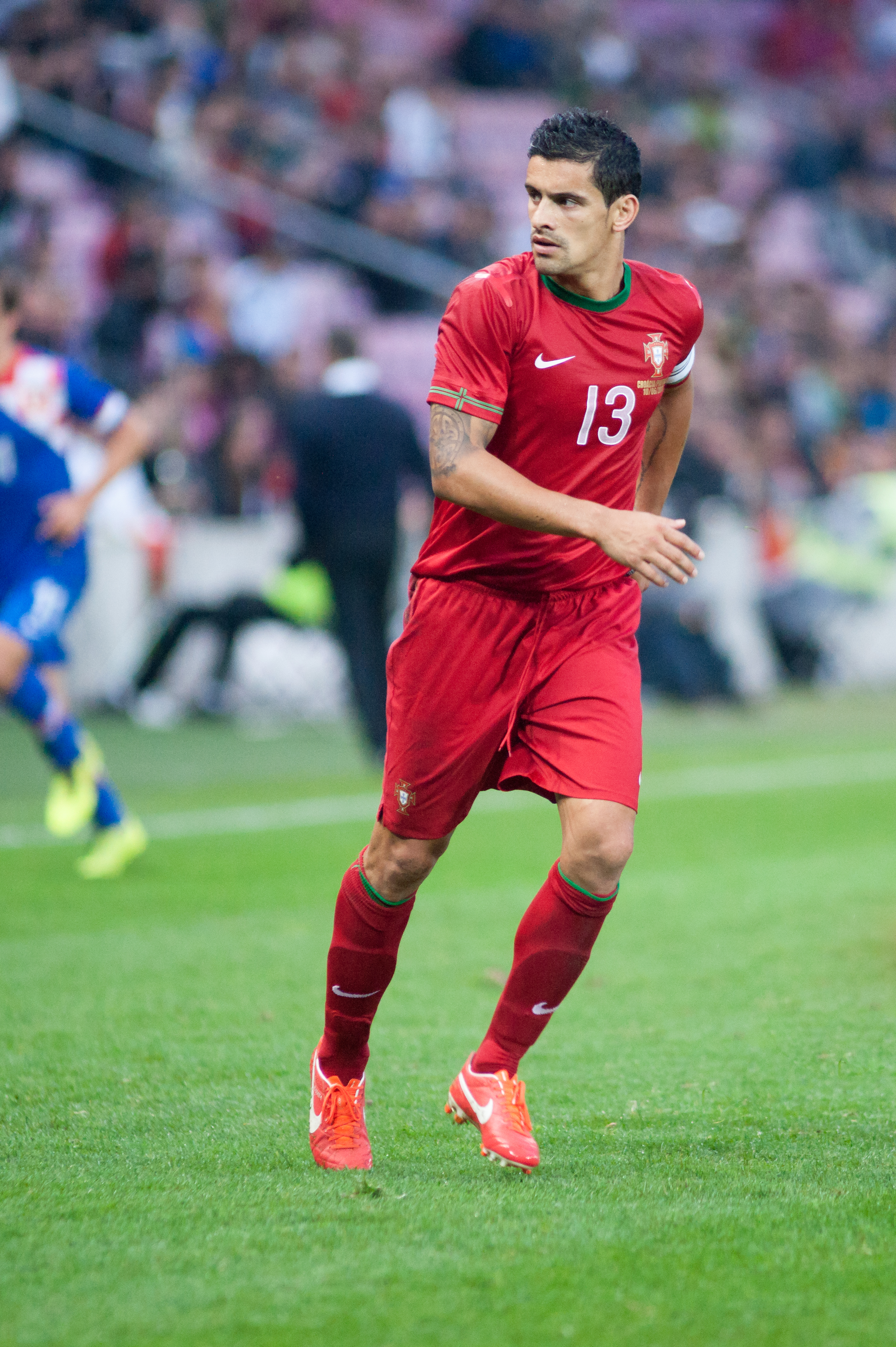 Croatia vs. Portugal, 10th June 2013